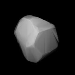 3D convex shape model of 1121 Natascha, computed using light curve inversion techniques. J. Hanuš, J. Ďurech, M. Brož, B. D. Warner (June 2011). "A study of asteroid pole-latitude distribution based on an extended set of shape models derived by the lightcurve inversion method". Astronomy and Astrophysics 530: A134. ISSN 0004-6361. arXiv